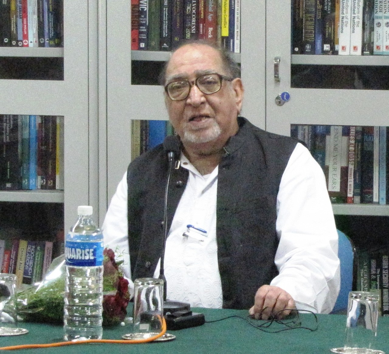 Asghar Ali Engineer, a prominent Indian muslim scholar in a seminar in Pune University.